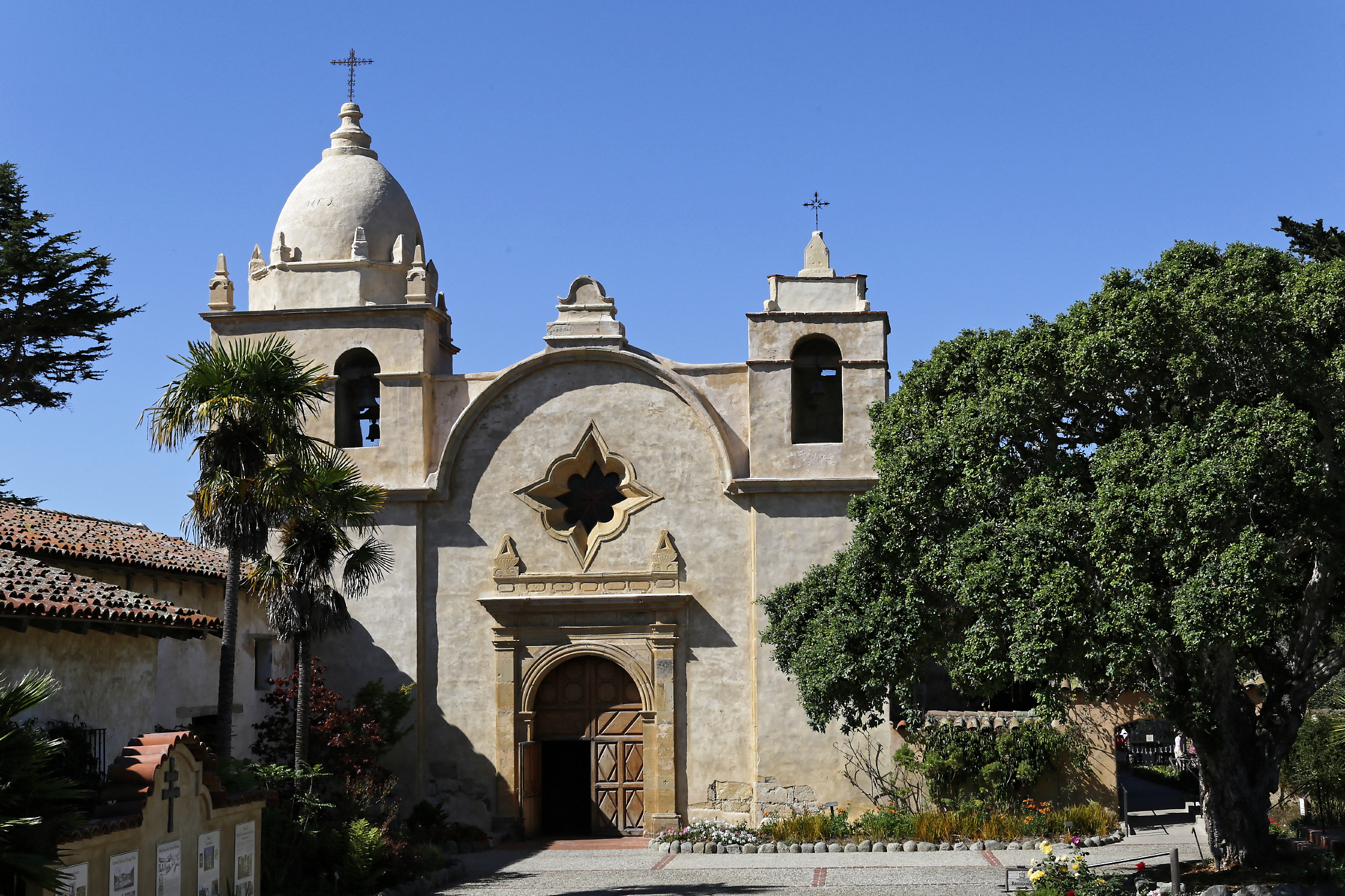 Mission San Carlos Borroméo del río Carmelo, Carmel, California. Also known as the Carmel Mission, it remains a parish church today. It is the only one of the California Missions to have its original bell tower dome